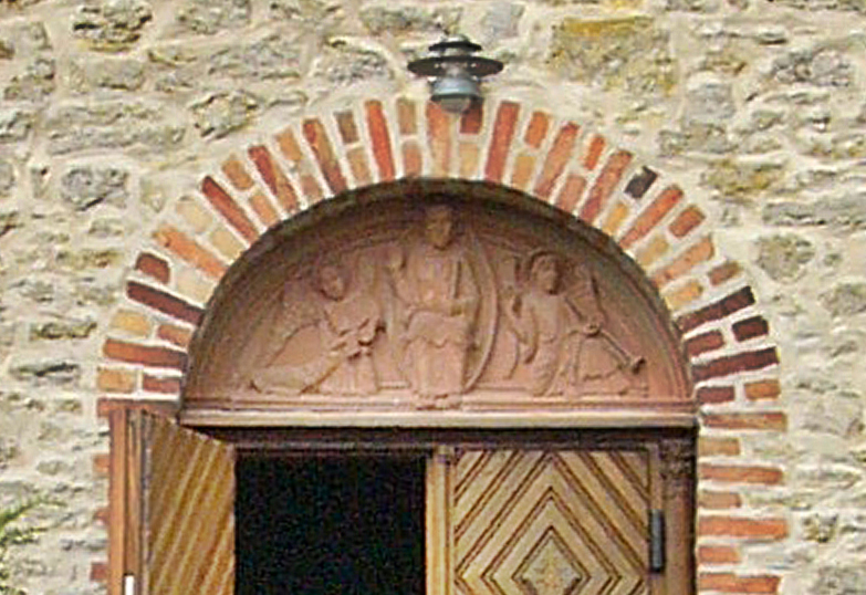 Antonius Chapel, Steinbruchstraße 12 in Oerlinghausen, Germany. View to the entrance.